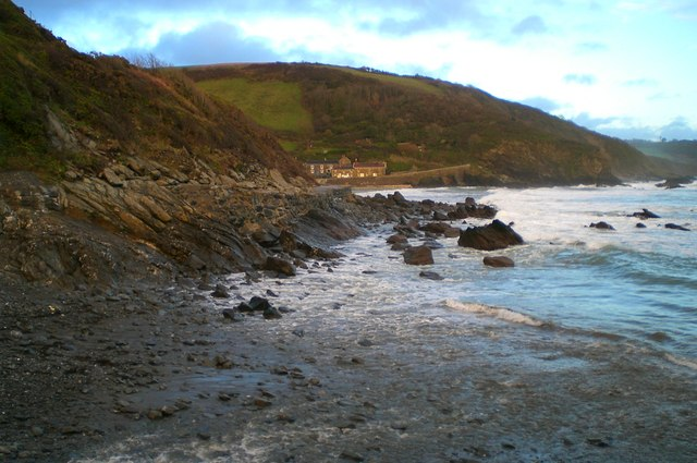 Portholland from West Portholland Portholland is a lovely secluded village by the sea. The beaches of East and West Portholland become one at low tide. The tide is in here, but going out.